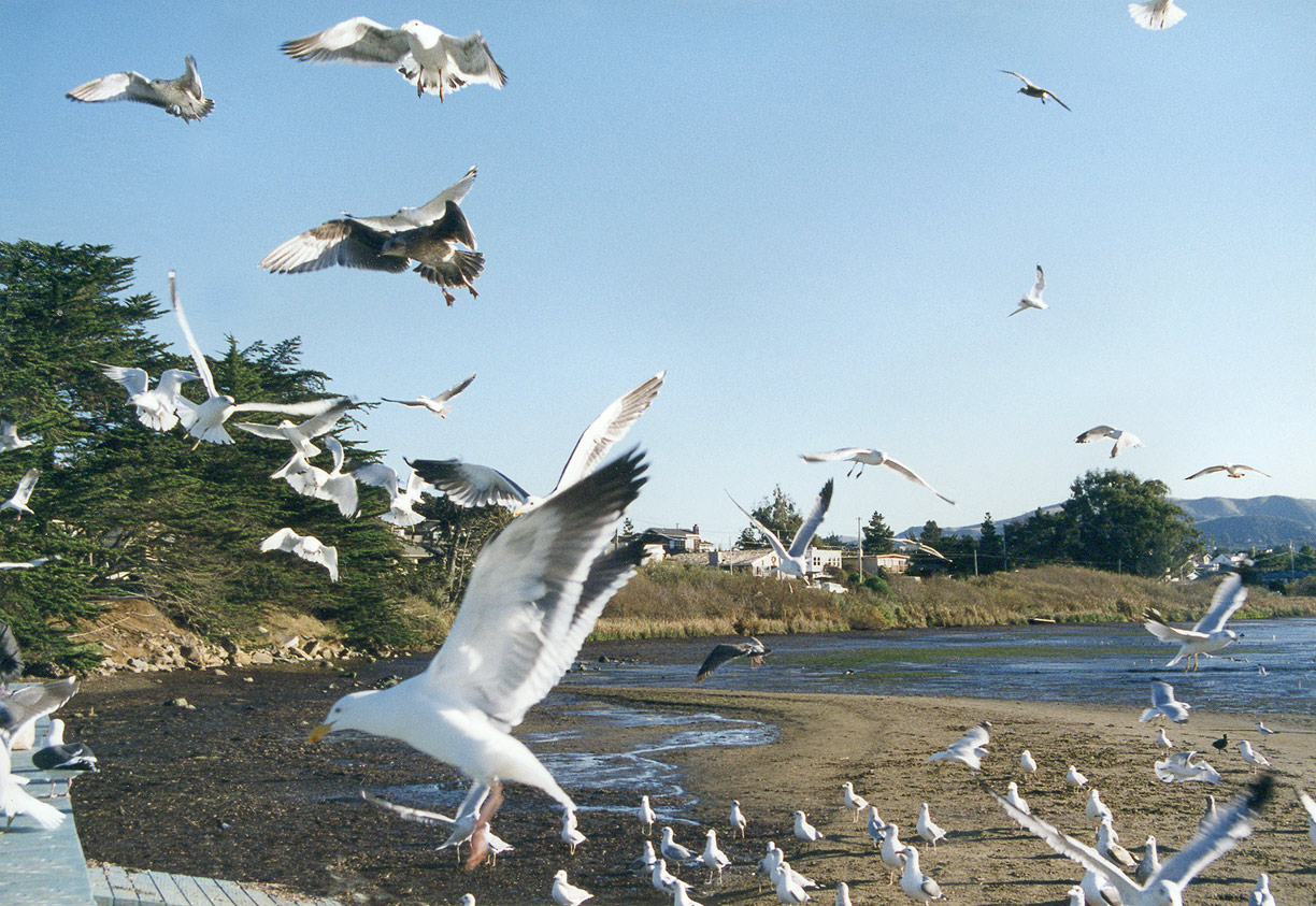 Western Seagulls (Larus occidentalis) in Morro Bay, California